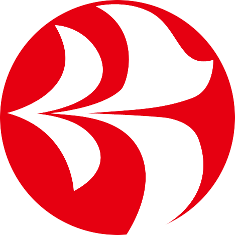 Toa Domestic Airlines(TDA)'s symbol mark.